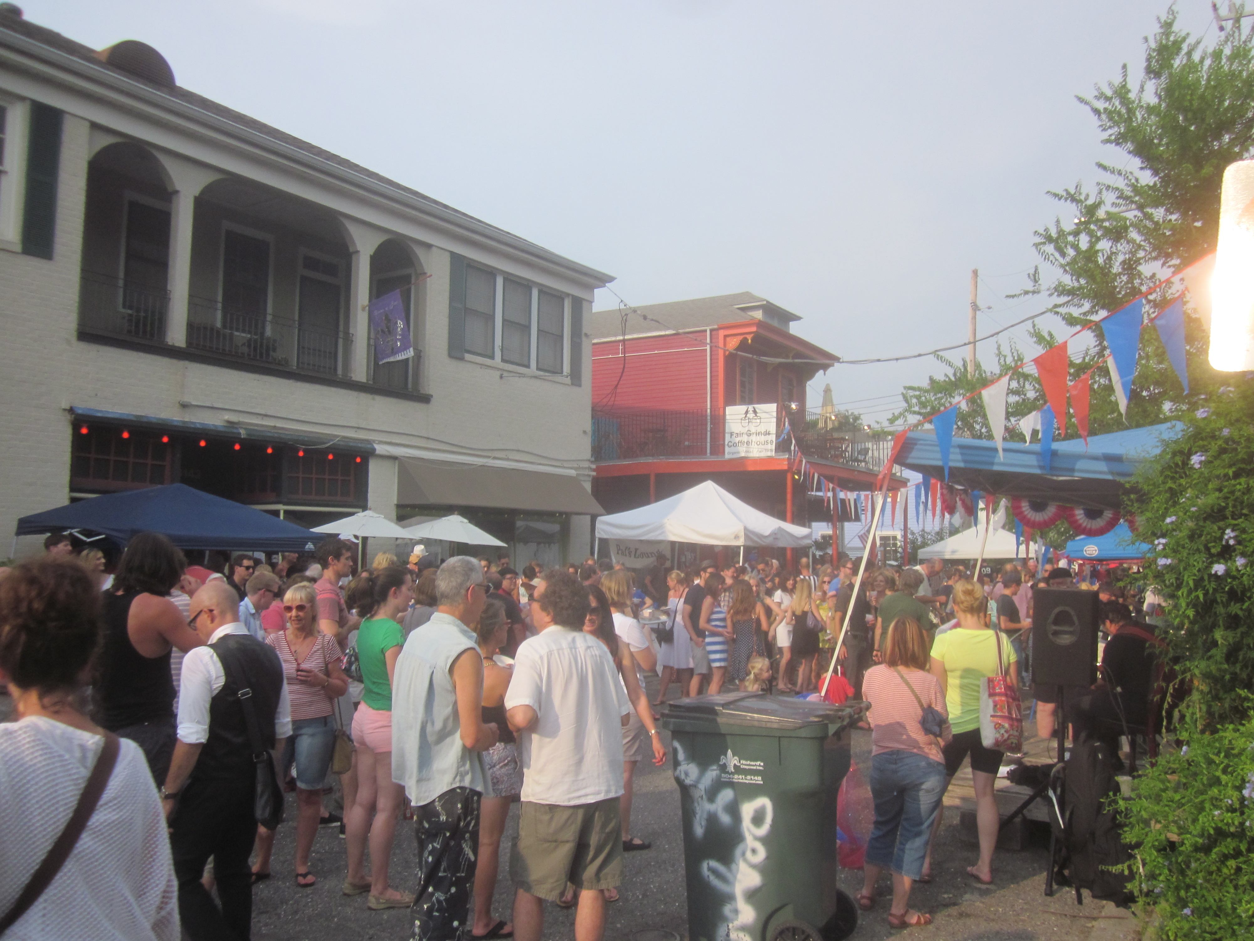 Bastille Day neighborhood party in Faubourg St Jean/Espalanade Ridge section of New Orleans, on Ponce de Leon Street down from Esplanade Avenue.